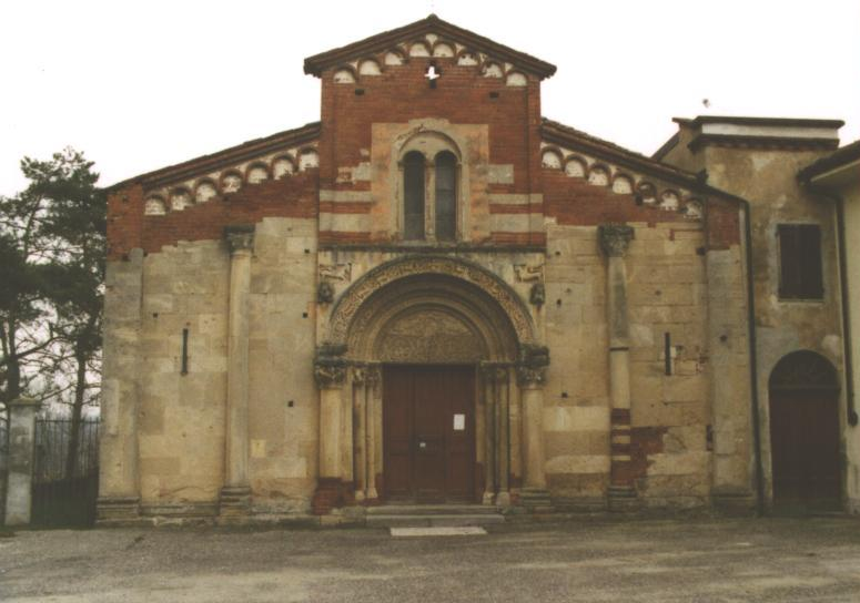 Romanic Abbey of Santa Fede in Cavagnolo (province of Torino, Piedmont, Italy)